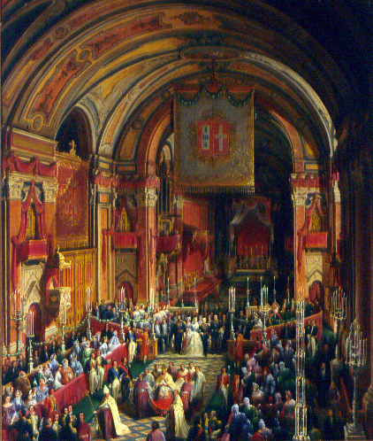 Ratification of the marriage of King Louis I of Portugal and Queen Maria Pia, in 1862.